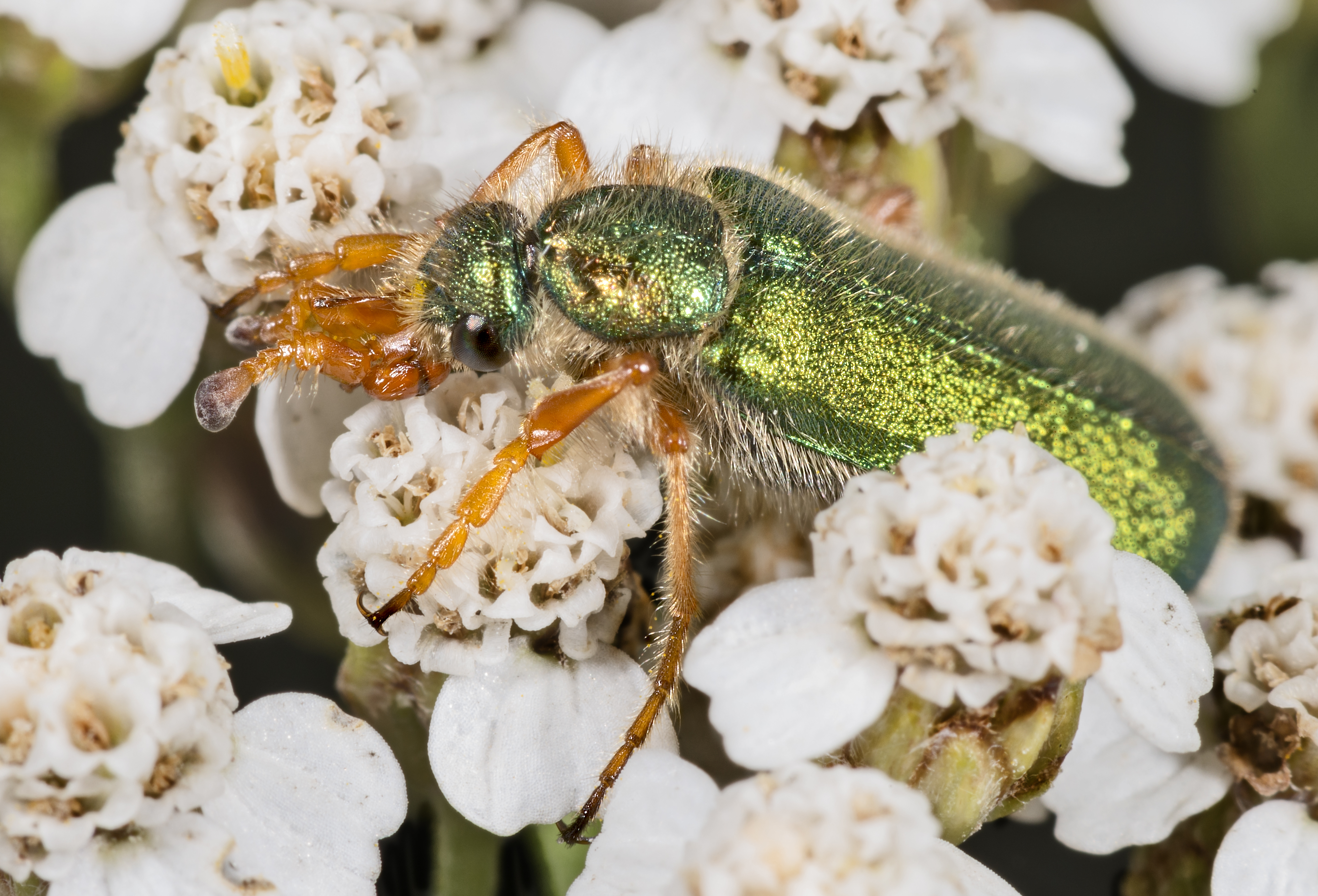 Cerocoma schaefferi.